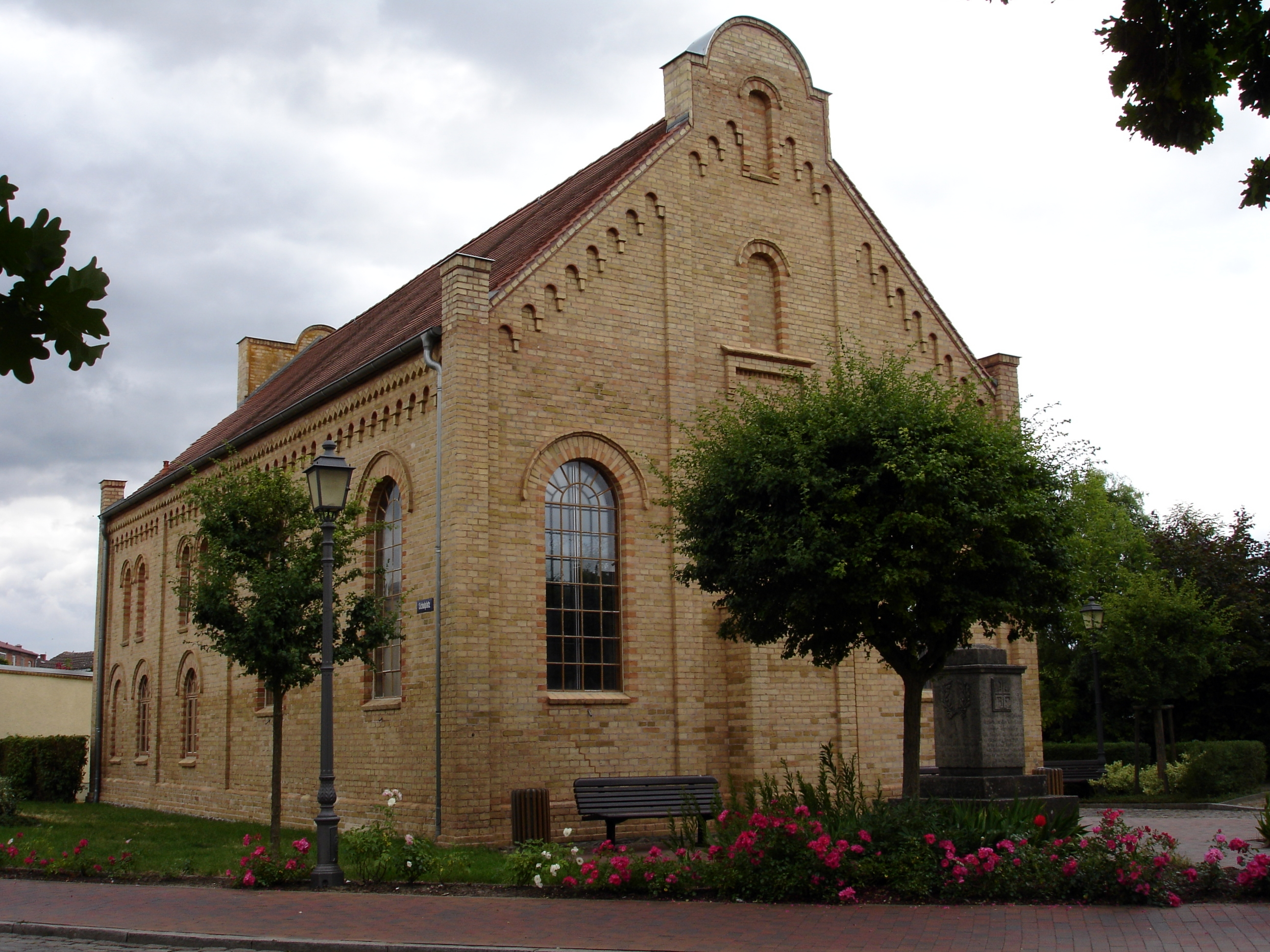 Former synagogue in Krakow am See, GermanyThe building is now used as museum.